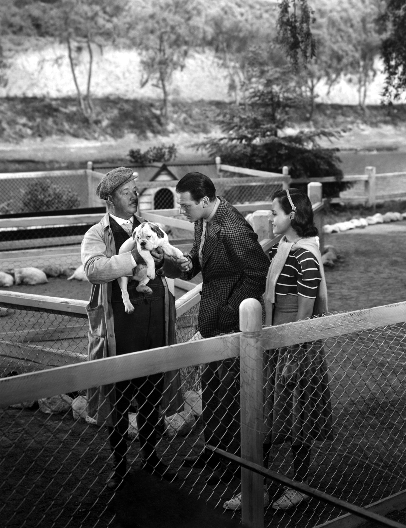 Left to right: Billy Bevan, Douglas Fairbanks, Jr., and Paulette Goddard the American film The Young in Heart (1938) - cropped screenshot.